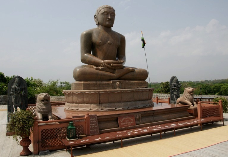 Image of Tirthankara Mahavira at Ahinsa sthal